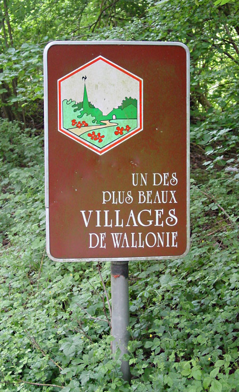 Photograph of the "Un des Plus Beaux Villages de Wallonie" sign on the way in to Thon-Samson.